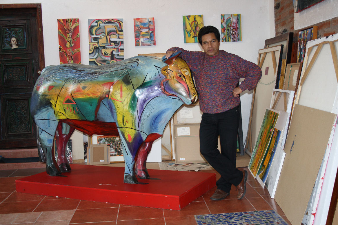 Miguel Betancourt in his studio in Cumbayá